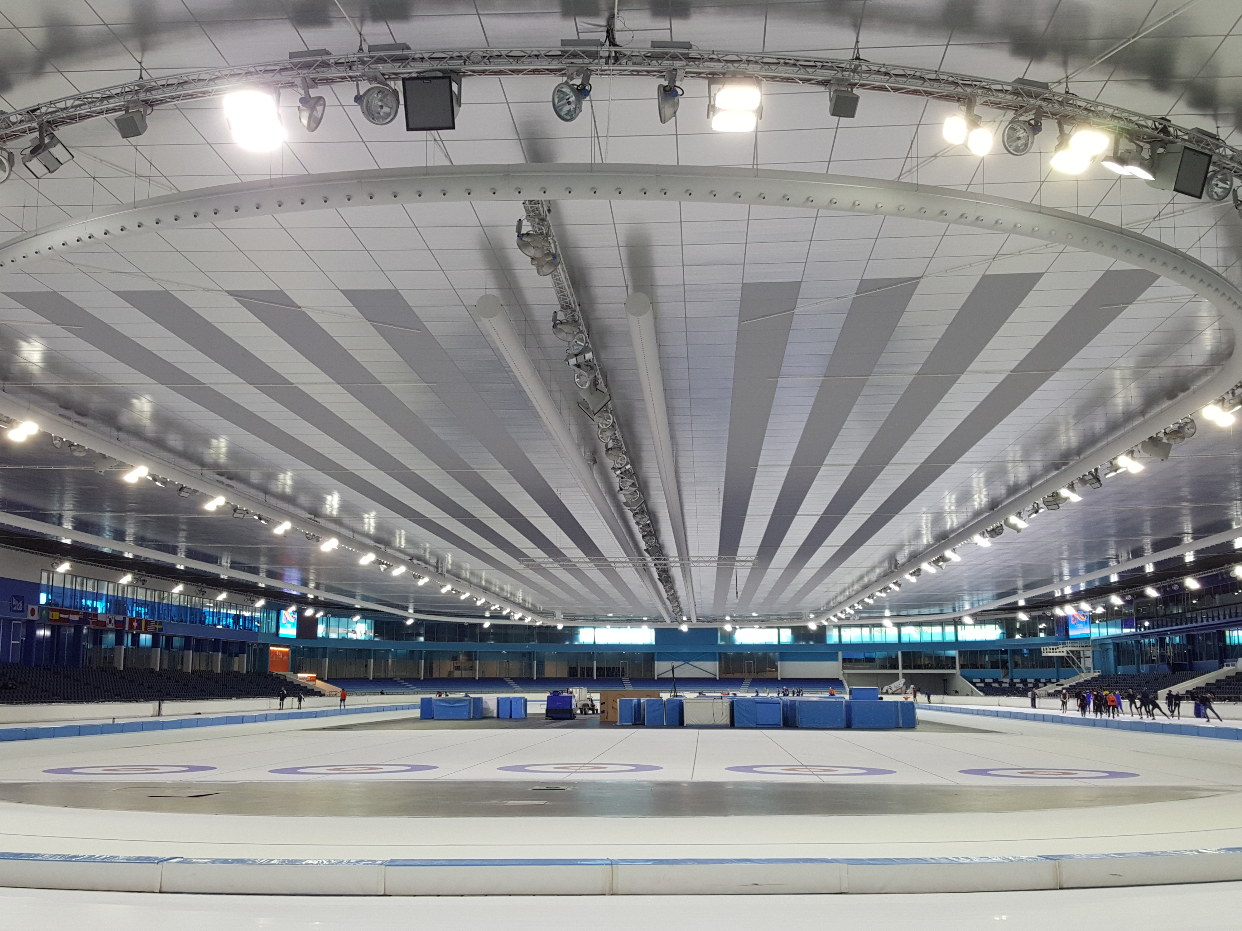 Thialf ice stadium, Heerenveen, June 2019